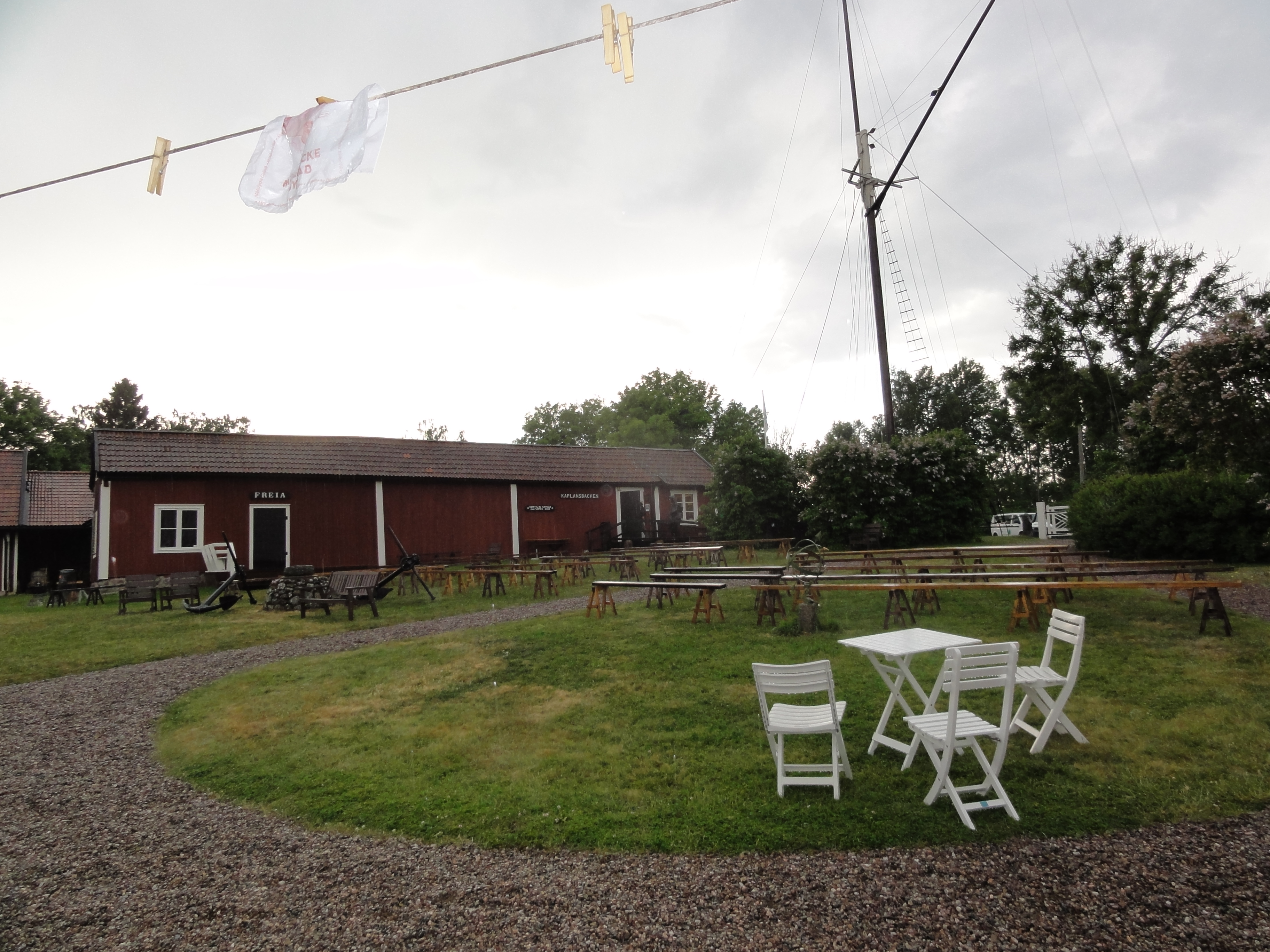 Naval museum of Roslagen located at Älmsta, Uppland